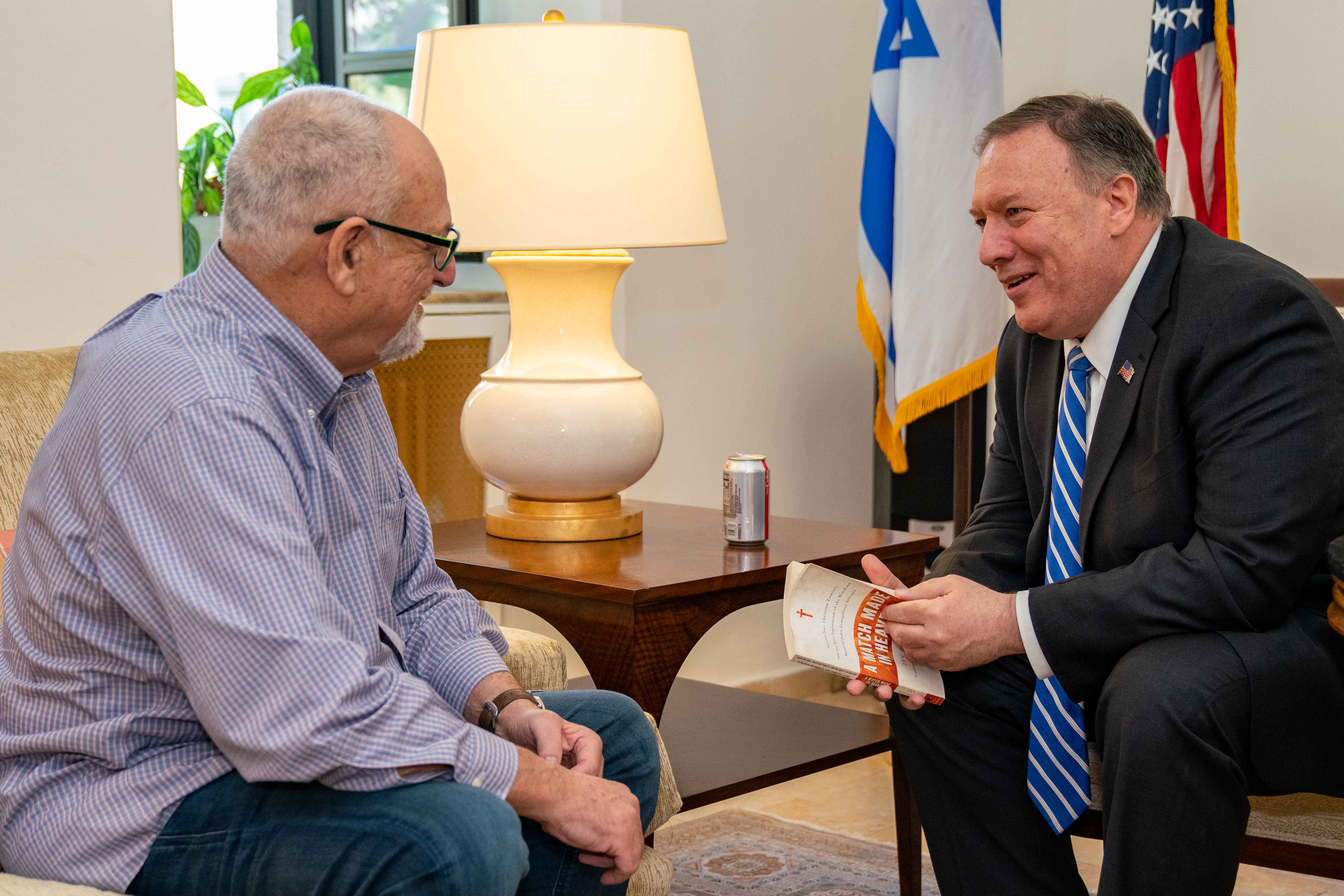 U.S. Secretary of State Michael R. Pompeo participates in an interview with Zev Chafets from Bloomberg Opinion in Jerusalem on October 18, 2019. [State Department Photo by Ron Przysucha/ Public Domain]